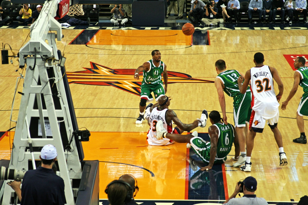 Kaunas Žalgiris playing against Golden State Warriors in their home arena (Oracle arena).